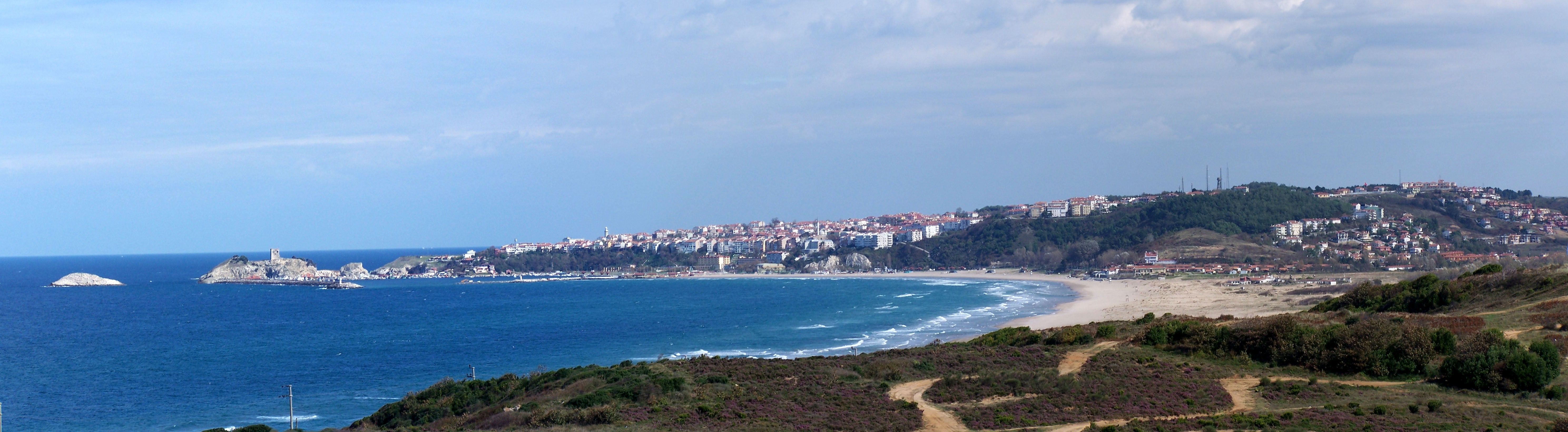 Town of Şile